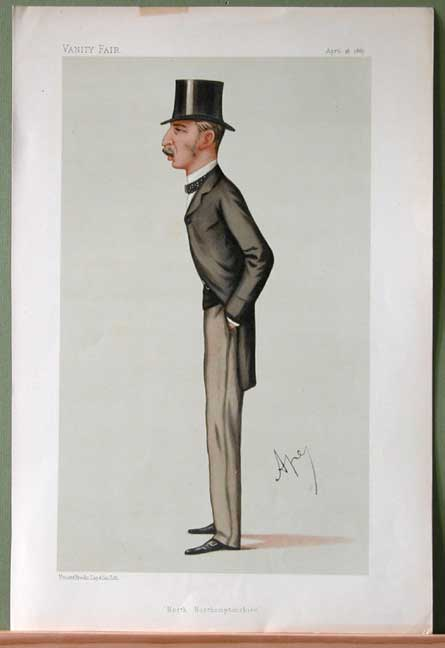 Statesmen No.518: Caricature of Lord Burghley MP. Caption reads: "North Northamptonshire"